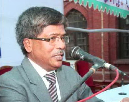 Dr. M Anwar Hossain giving a speech in a program of department of BMB, DU